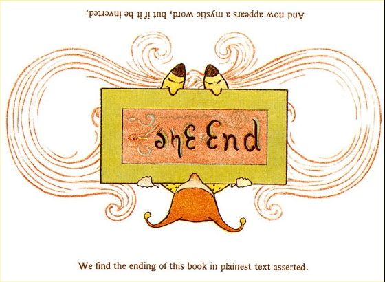 Second earliest known ambigram